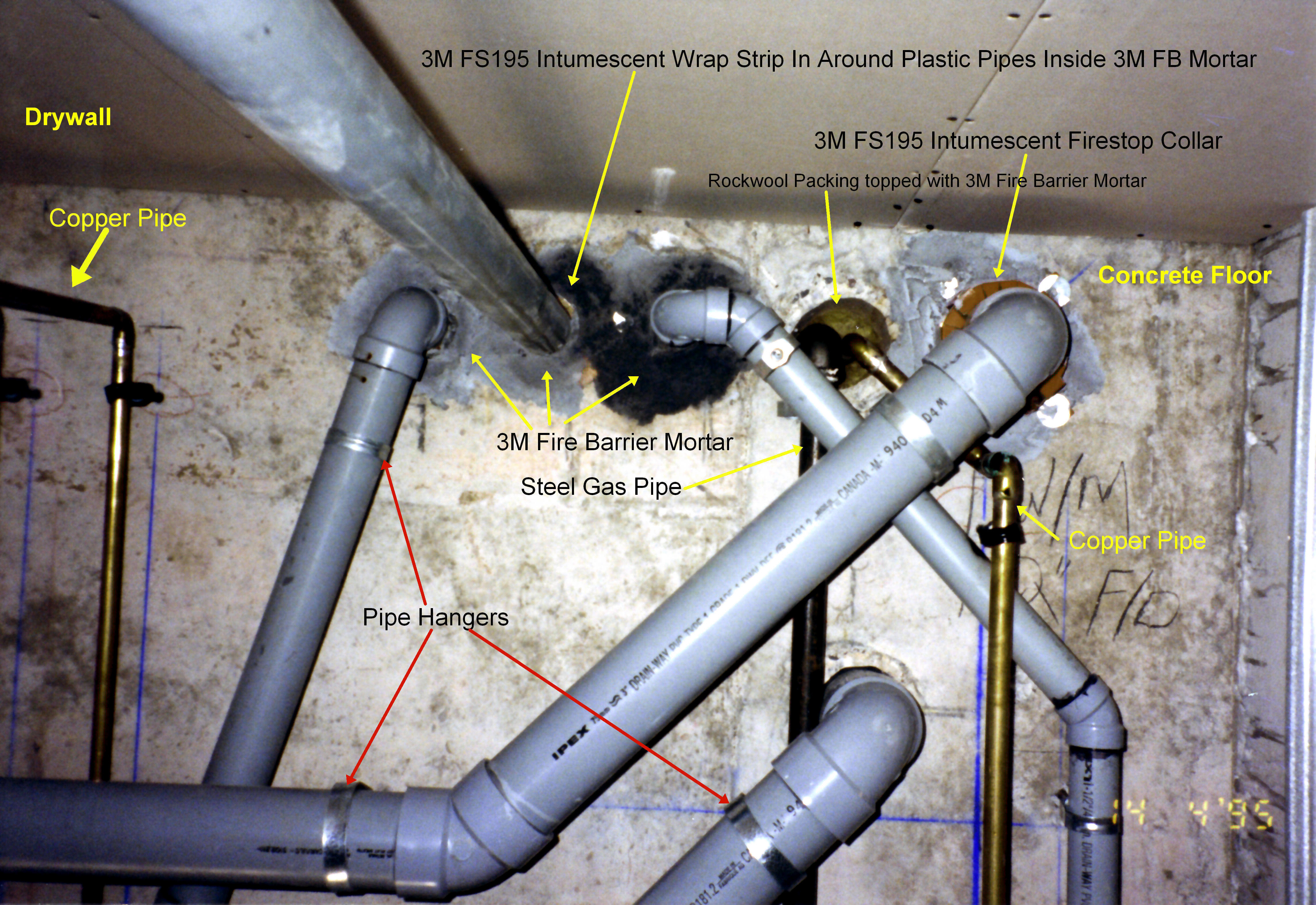 Concrete floor penetrations, next to a drywall wall assembly prior to taping, as seen from underneath, with plastic, copper and steel piping. Plastic pipe penetrations are fitted with 3M FS195 wrap strips, either in exterior collars or buried within 3M Fire Barrier Mortar to provide a 2 hour fire-resistance rating.